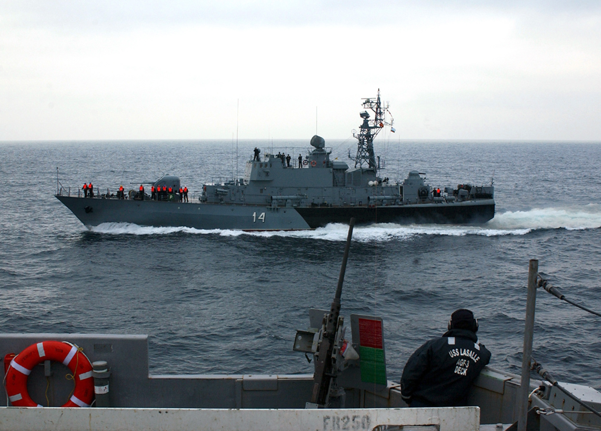 The Bulgarian Navy corvette Bodri comes alongside the Sixth Fleet Flagship USS La Salle (AGF 3) during multinational training exercises in the Black Sea. La Salle recently conducted exercises with the Ukrainian and Bulgarian Navies during a trip to the region in support of theater security cooperation initiatives.